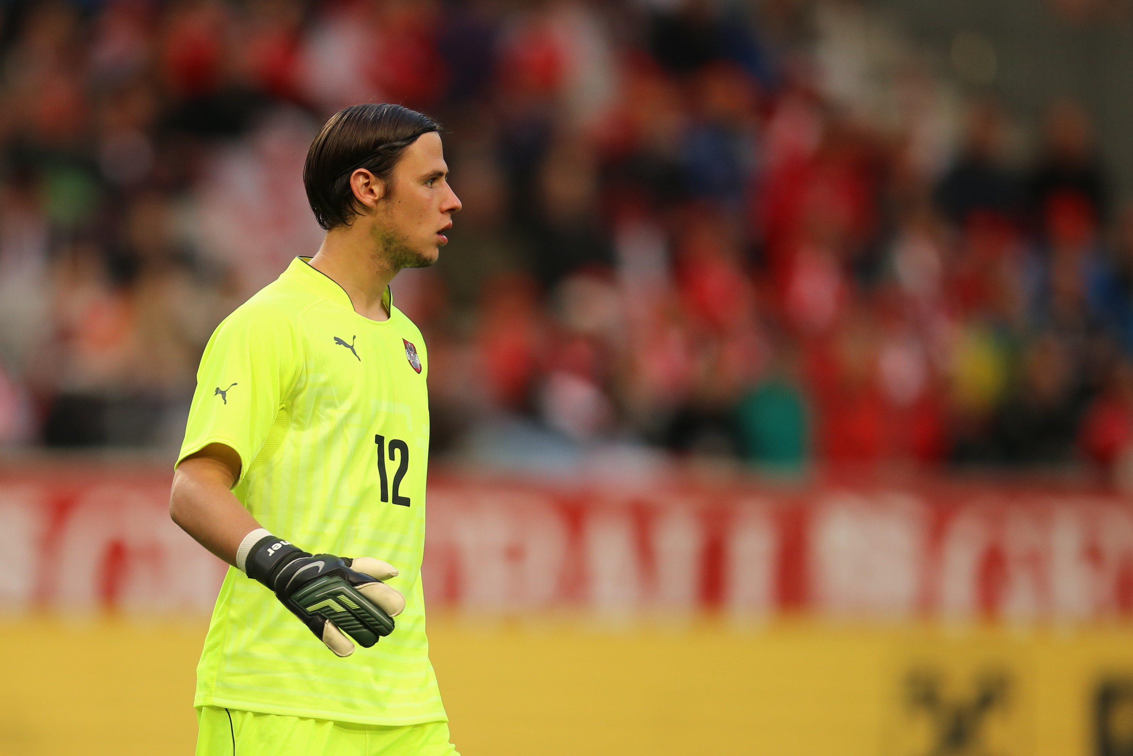 Austria - Iceland football match in Innsbruck, Austria on 2014-05-30. Austria in red, Iceland in blue.